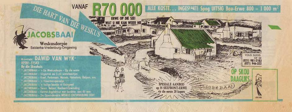 initial phases of the Jacobsbaai town development